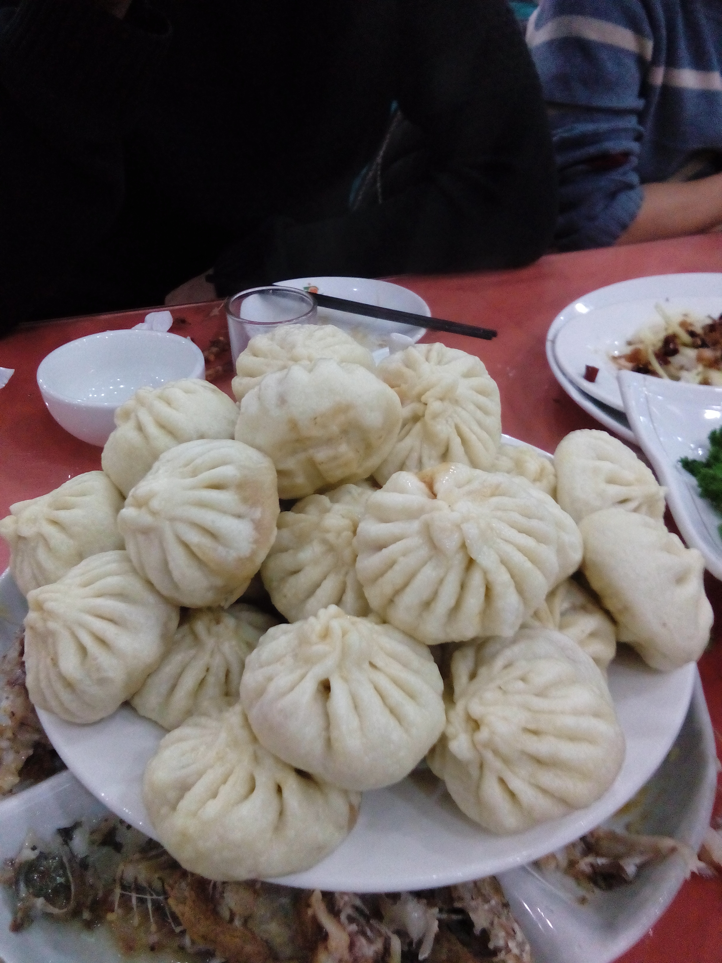 Jinjin le buns